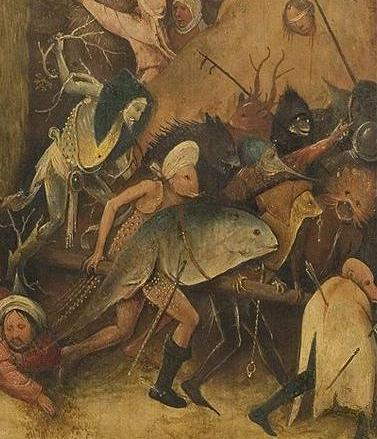 The Hay Wagon, central panel, detail.